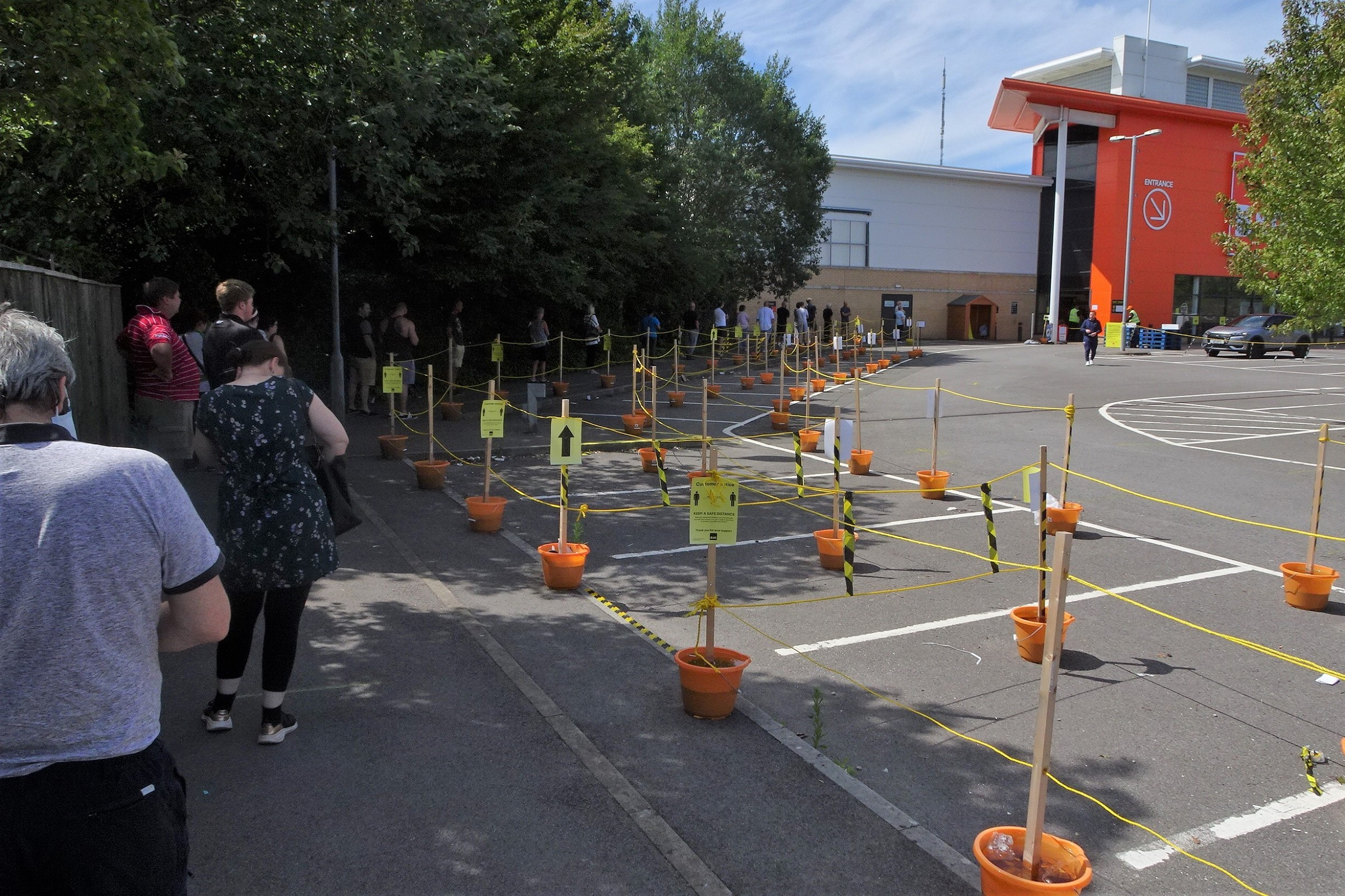 Socially distanced queuing to enter the B & Q DIY store in west Cardiff, during the 2020 coronavirus pandemic restrictions